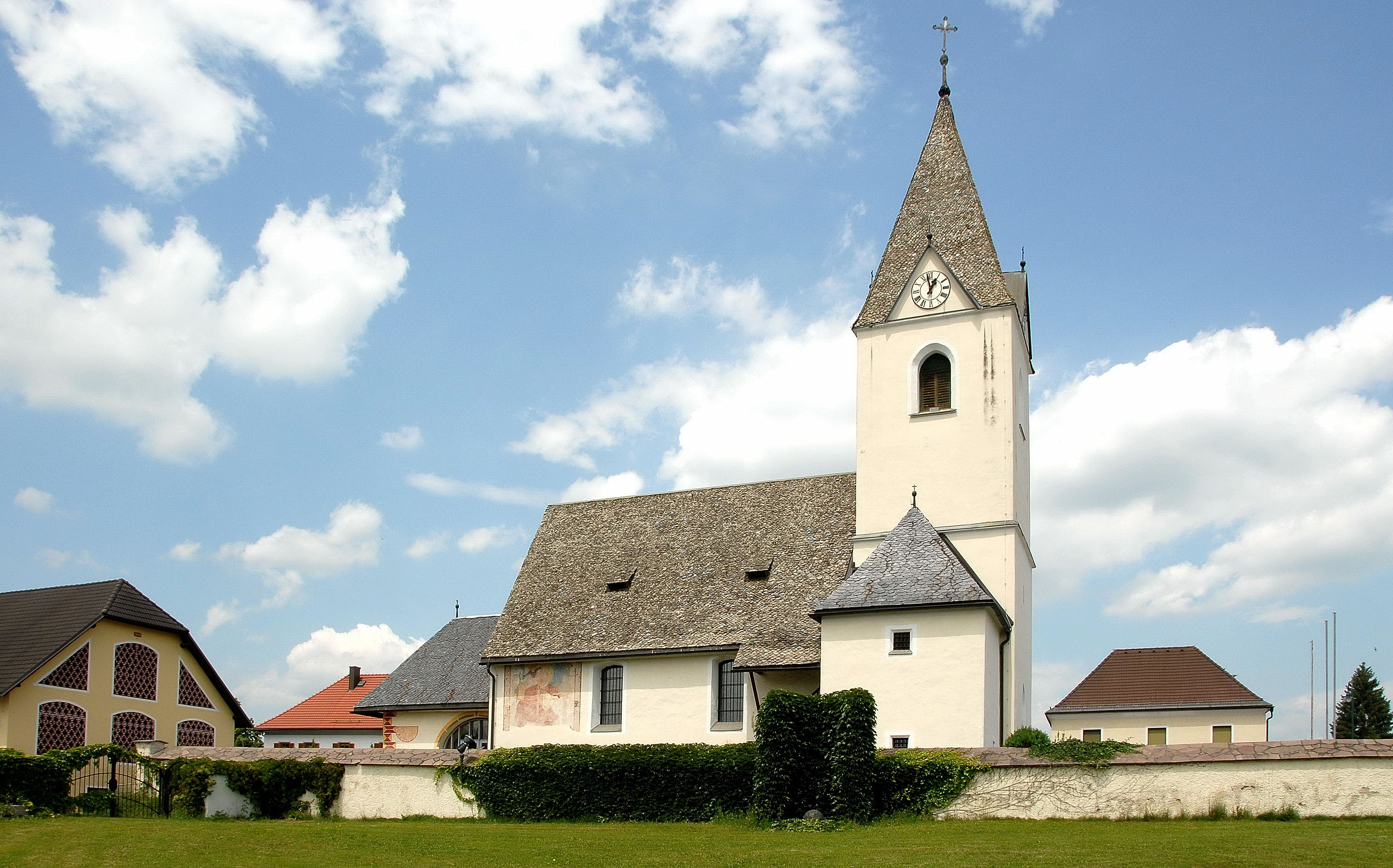 Parish church Saints George and Jakob major in Poggersdorf, municipality Poggersdorf, district Klagenfurt Land, Carinthia, Austria, EU